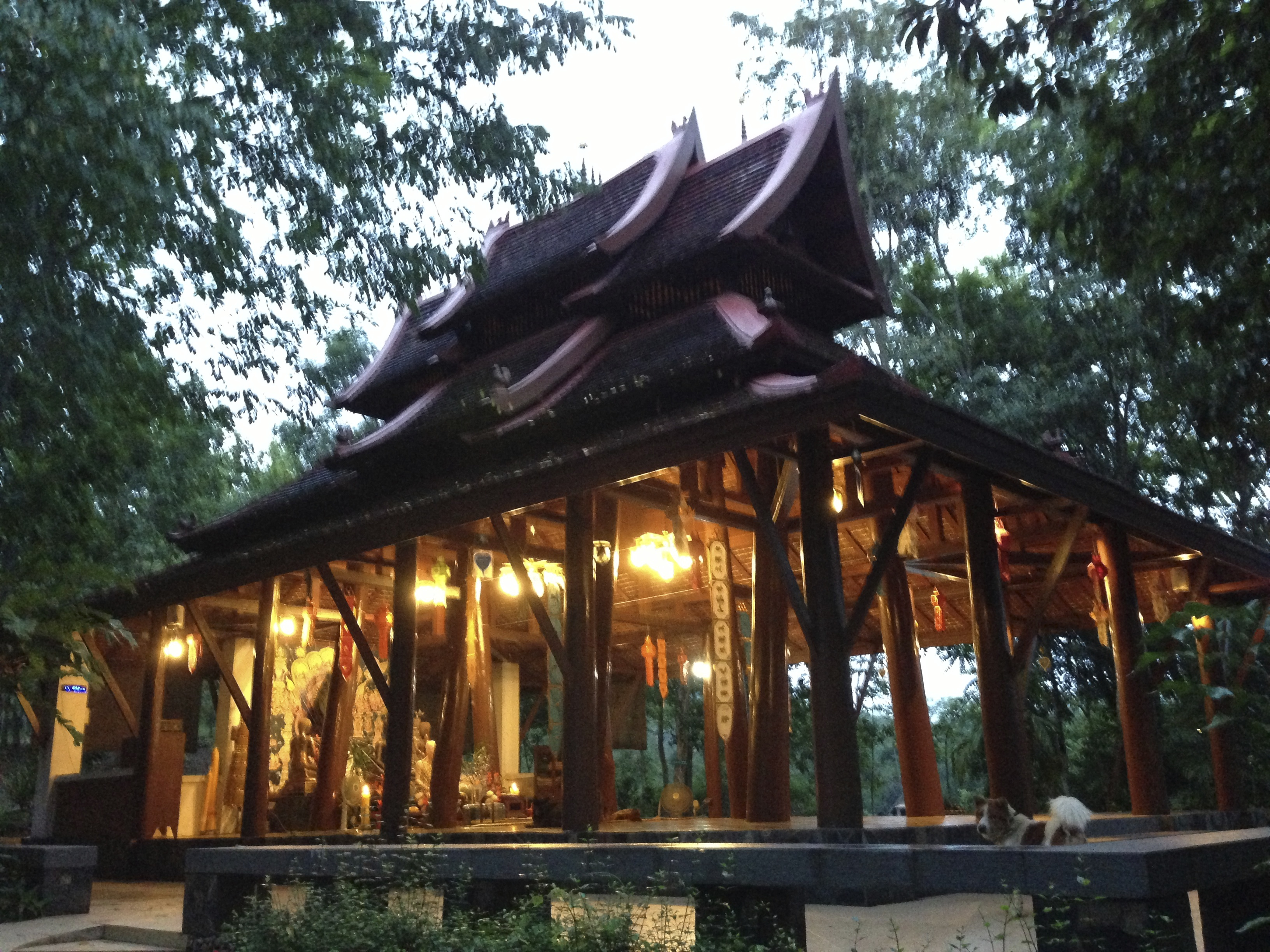 Wat Pa Phut Photchanaram